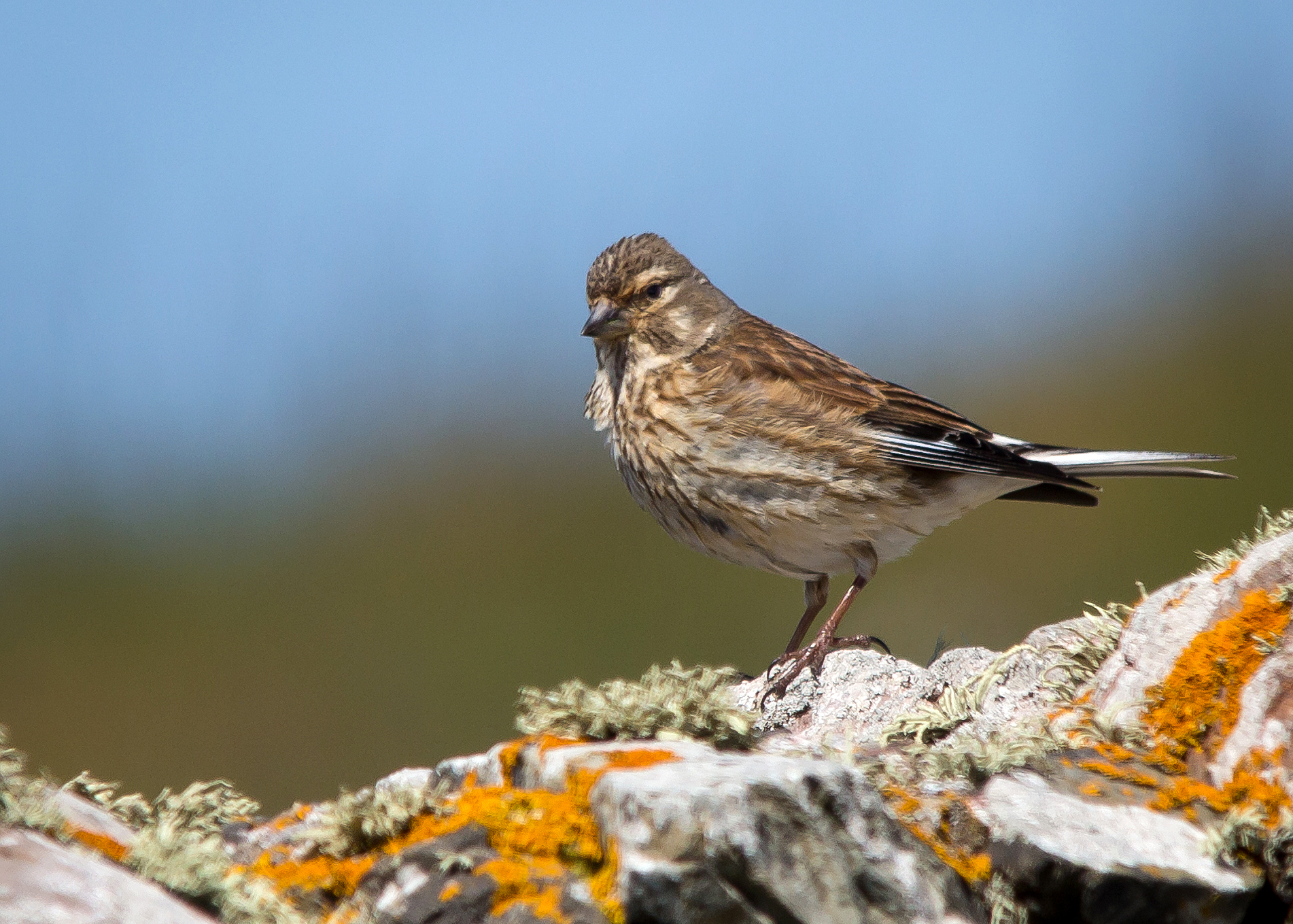 linnet (female)